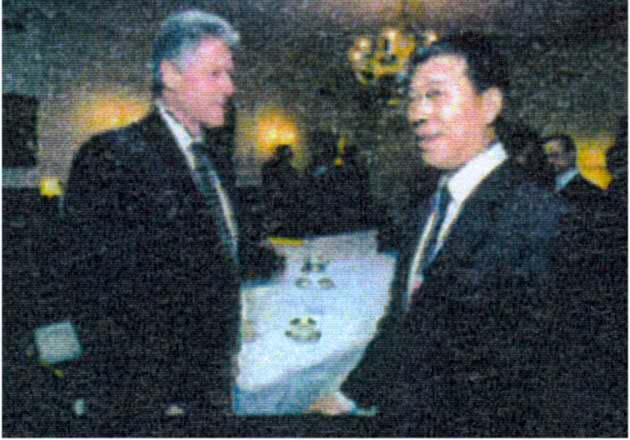 President Clinton and Wang Jun in the Whitehouse (from a U.S. White House Communications Agency video released to the public in 1997). Contact